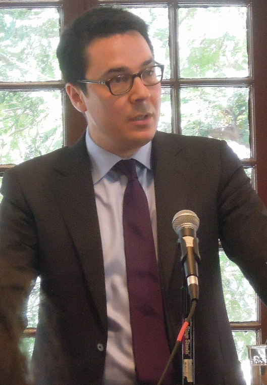 Ryan Lizza speaks at the Kelly Writer House, March 27, 2013